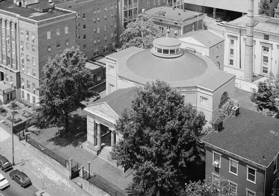 Palladian architecture in Virginia Monumental Church (1812-14) was designed by architect Robert Mills to commemorate the deaths of seventy-two persons, including Virginia Governor George William Smith, who perished in an 1811 fire that destroyed a theater on the site. Conceived as both an active church and commemorative monument, its dual role is expressed by a stone memorial portico and adjoining octagonal church. As an early example of Greek Revival styling, Monumental Church is derived from the work and ideas of numerous renowned designers, especially Benjamin H. Latrobe. Mills, however, an American-trained architect who explored progressive concepts such as fireproof-construction techniques, is credited with synthesizing contemporary architectural trends into buildings that have become identified with the Federal era. Although Monumental Church was altered and enlarged during the late nineteenth century, subsequent rehabilitations have restored its original appearance.